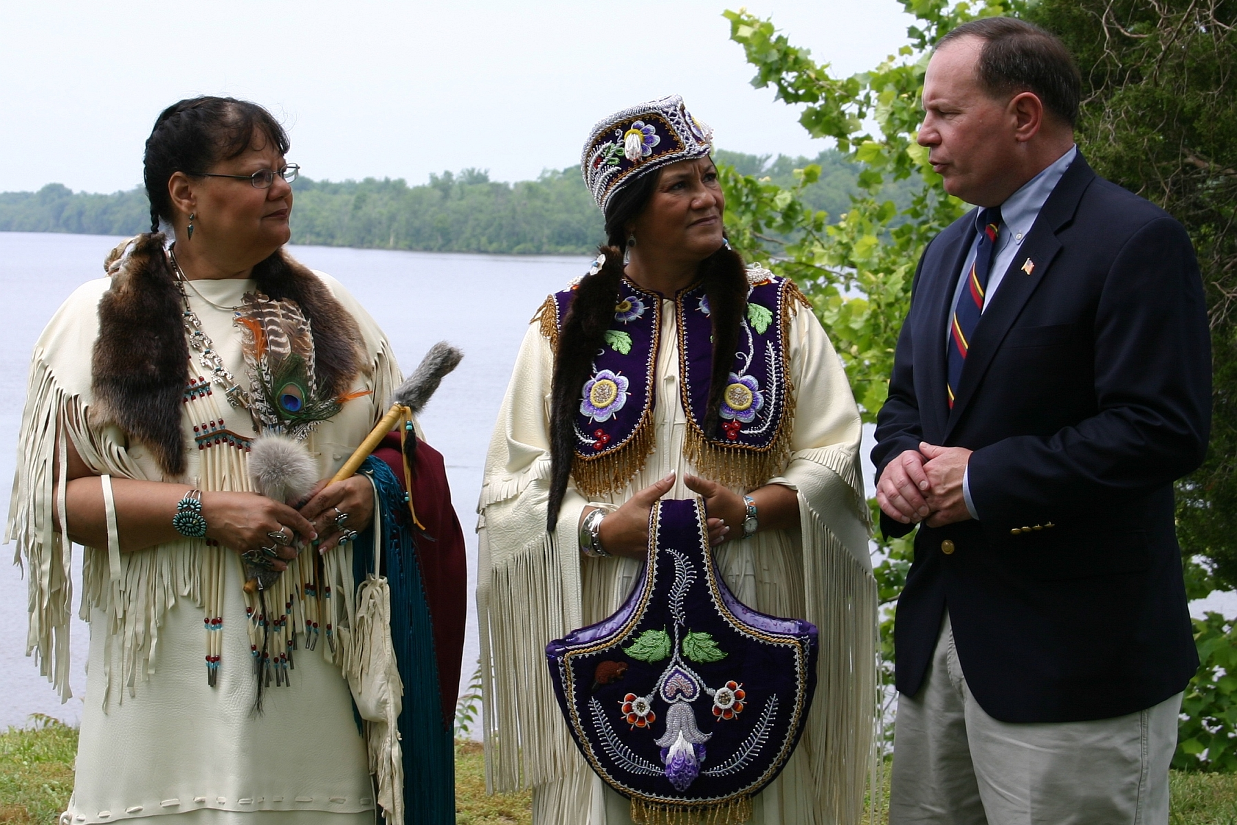 Mr. Tad Davis, Deputy Assistant Secretary of the Army for Environment, Safety and Occupational Health, Chief Anne Richardson and Ms. Wanda Fortune of the Rappahannock Tribe at the Camden property signing ceremony as part of the Army Compatible Use Buffer (ACUB)Program. Fort A.P. Hill’s ACUB program was used to acquire a conservation easement on the Camden property. Photo Courtesy of Fort A.P. Hill Public Affairs Office